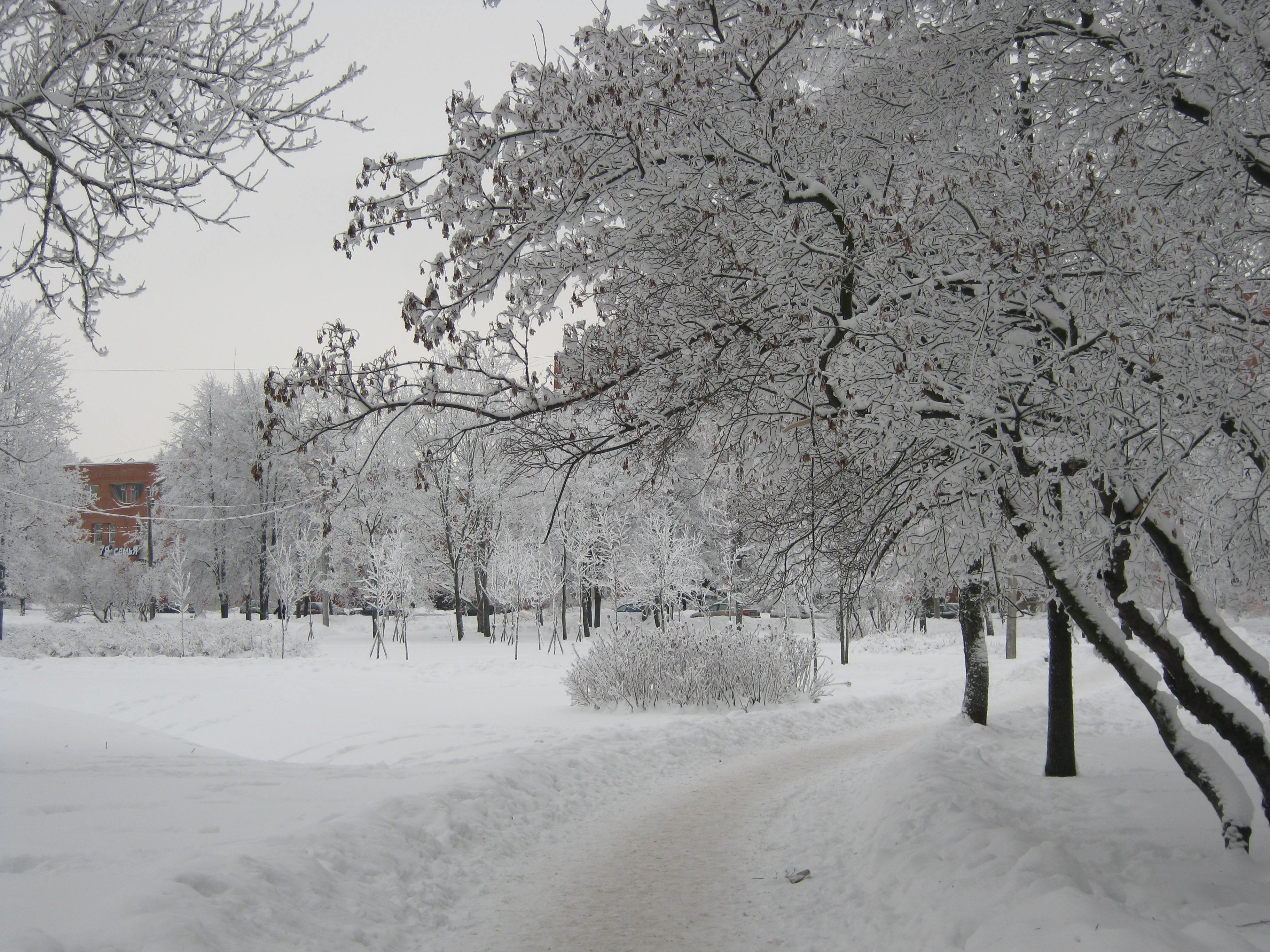 Kolpino (Russia)